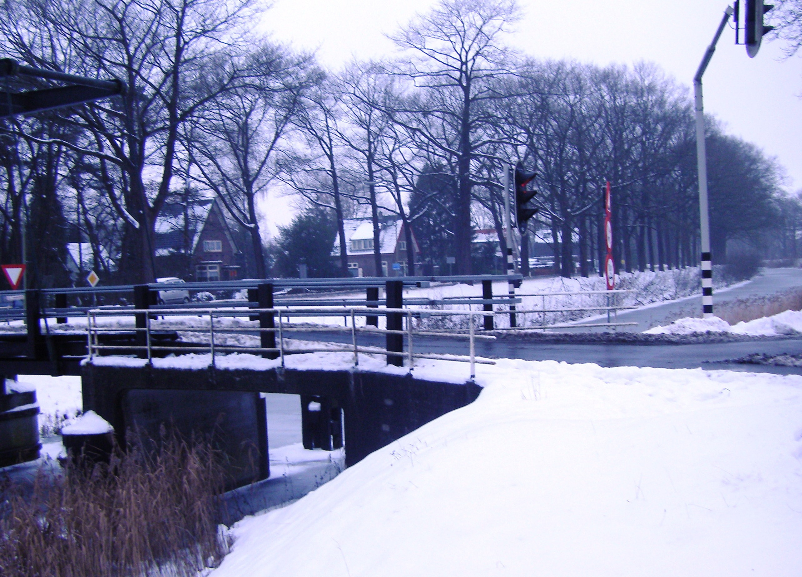 Hallse brug at the Apeldoornse kanaal